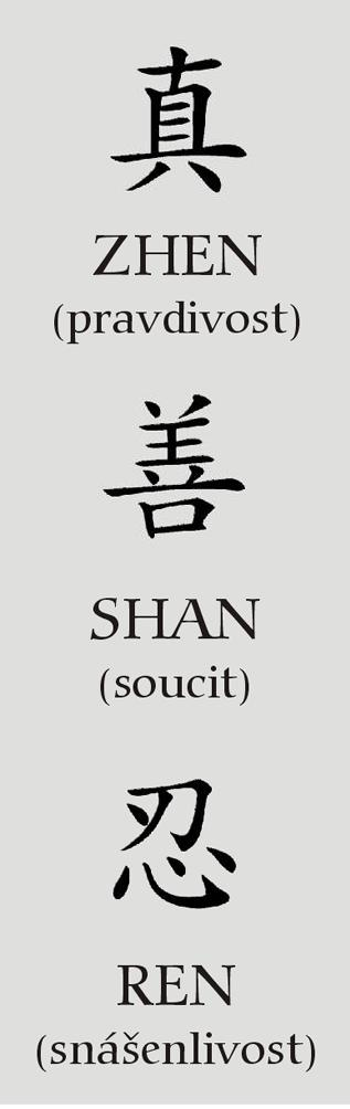 Principles of Meditation practicing Falun Gong, Zhen (Truthfulness), Shan (Compassion), Ren (Forbearance). Falun Gong is a spiritual practice of refining the body and mind, including the practice and teaching of Dafa (the Great Law).